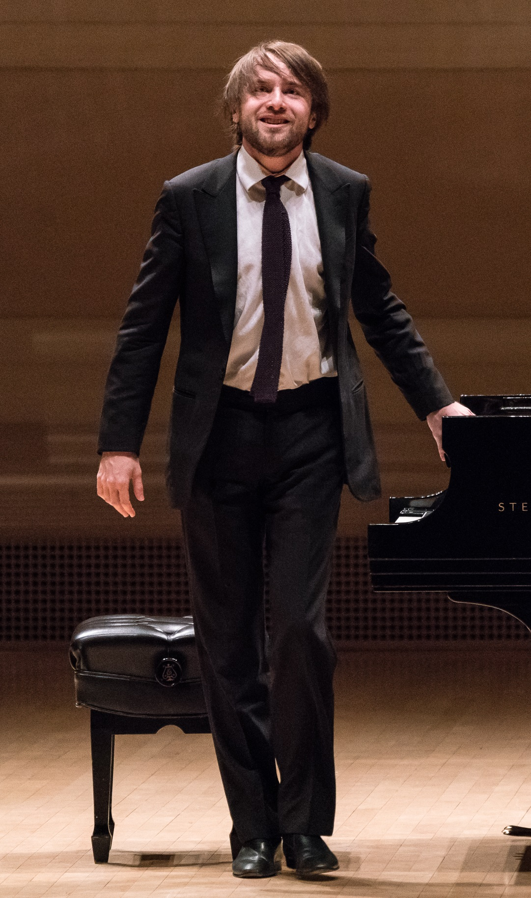 Daniil Trifonov at Carnegie Hall, New York, NY, October 28, 2017